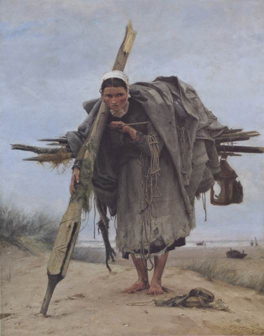 The Scavenger (c.1880)